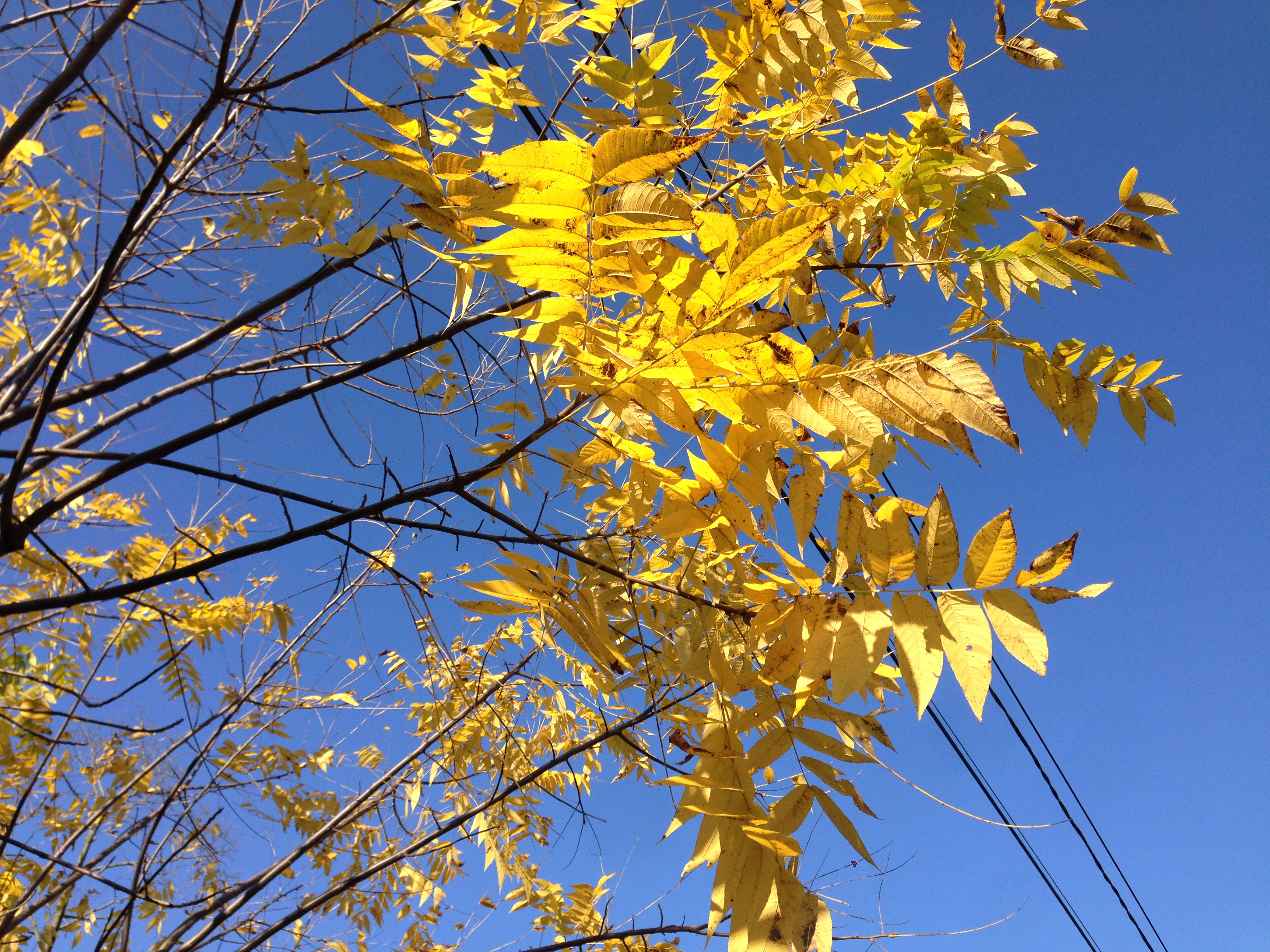 Black Walnut foliage during autumn along Fireside Avenue in Ewing, New Jersey